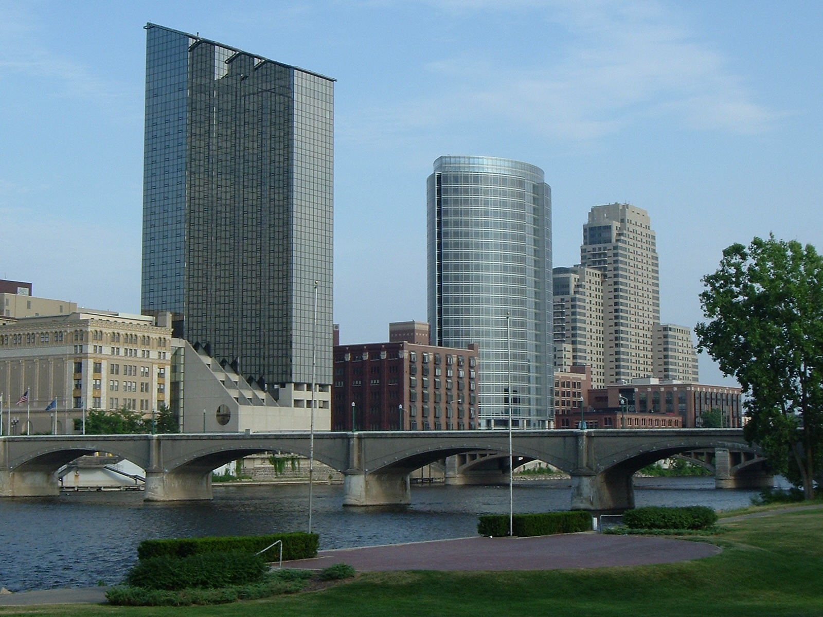 Picture I took of Downtown Grand Rapids, MI from the lawn of the Gerald R. Ford Presidential Museum